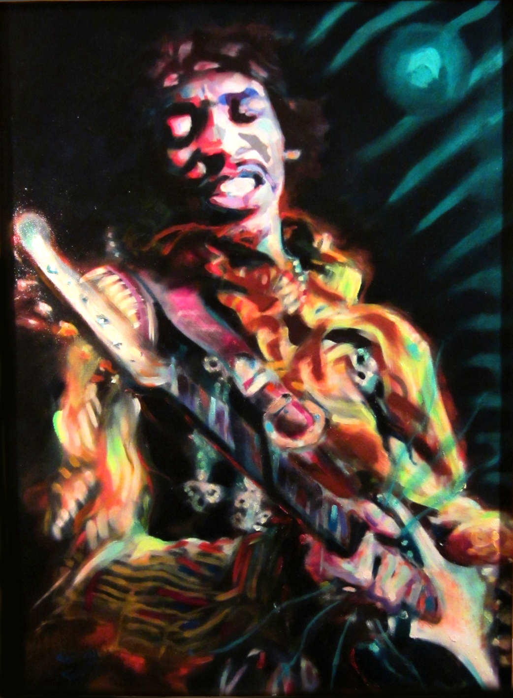 Portrait of Jimi Hendrix oil on canvas by the swedish artist Tommy Tallstig.